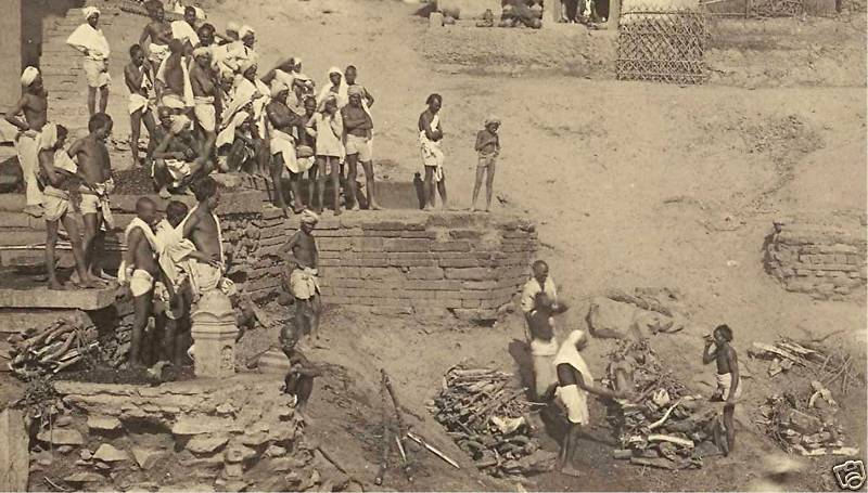 Burning Ghats at Benares in 1894